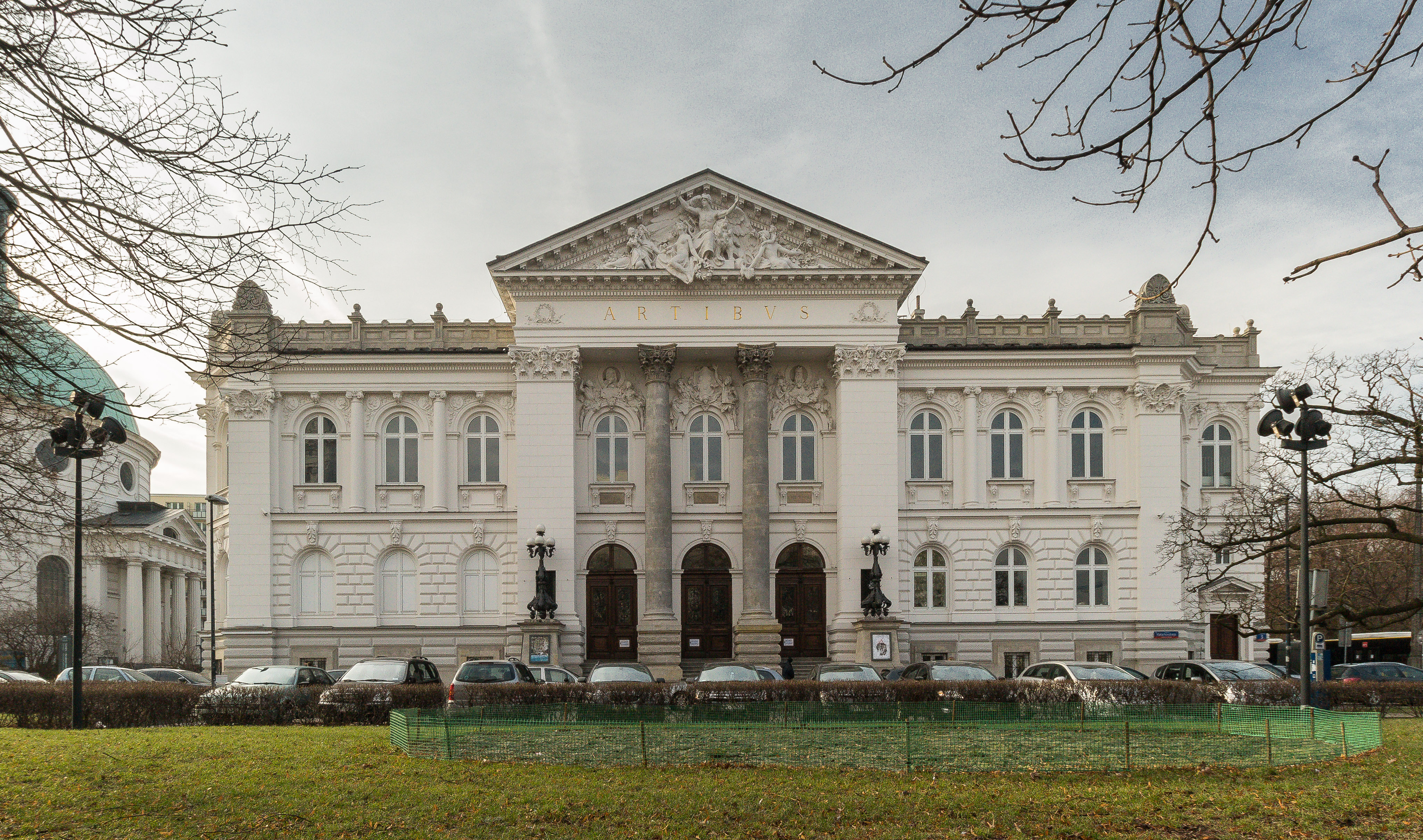 This file was uploaded to Wikimedia Commons by participants of Zachęta do Wikipedii, a GLAM-Wiki event organised at Zachęta - National Gallery of Art as part of a partnership project with Wikimedia Polska. Polski | English | +/−